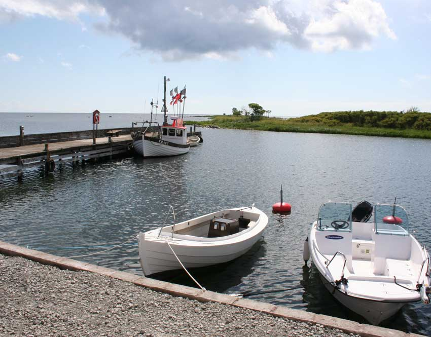 Harbour on Öland, Sweden